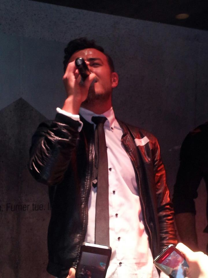 Ardian Bujupi